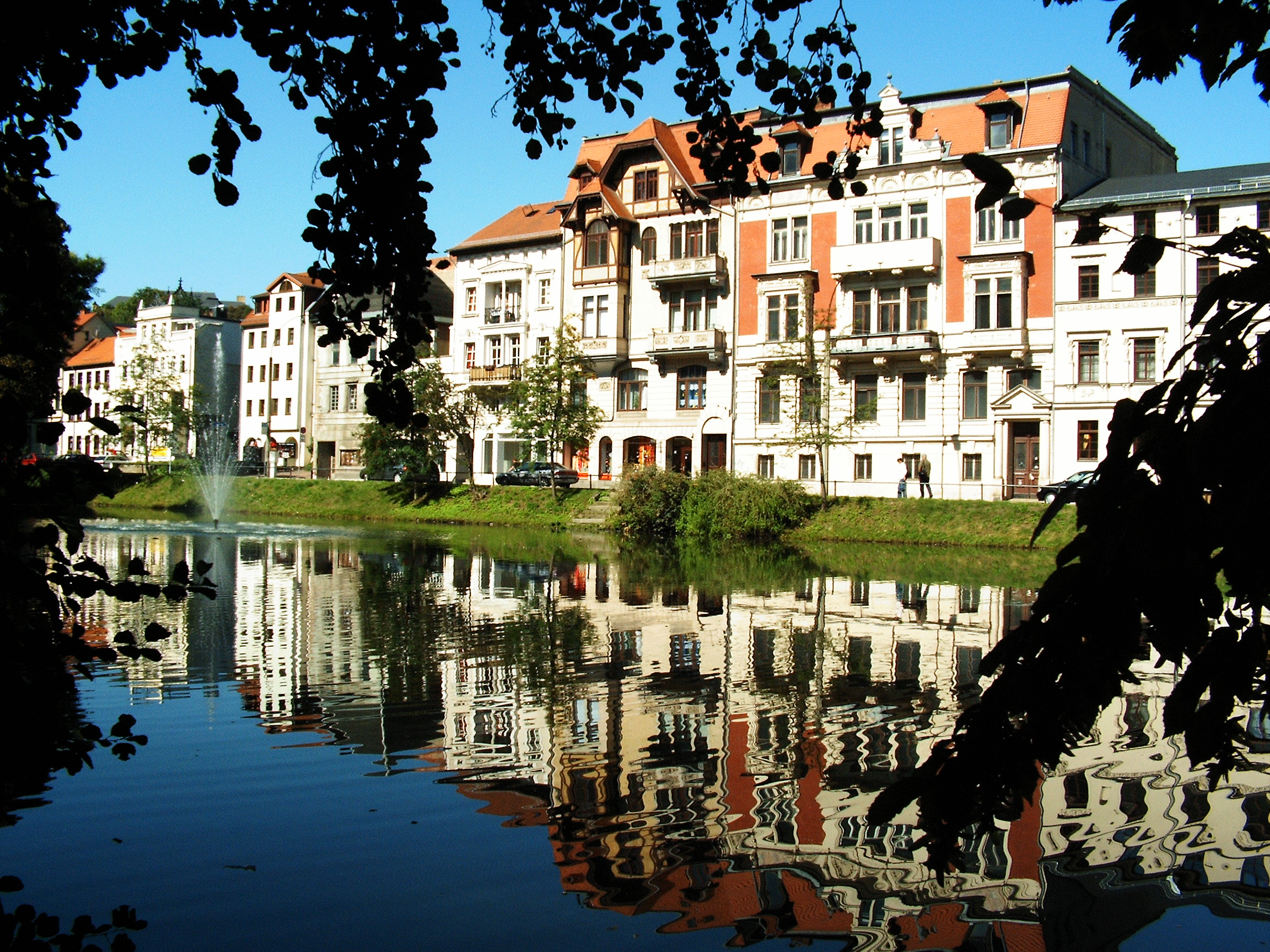 Pauritz Pond in Altenburg